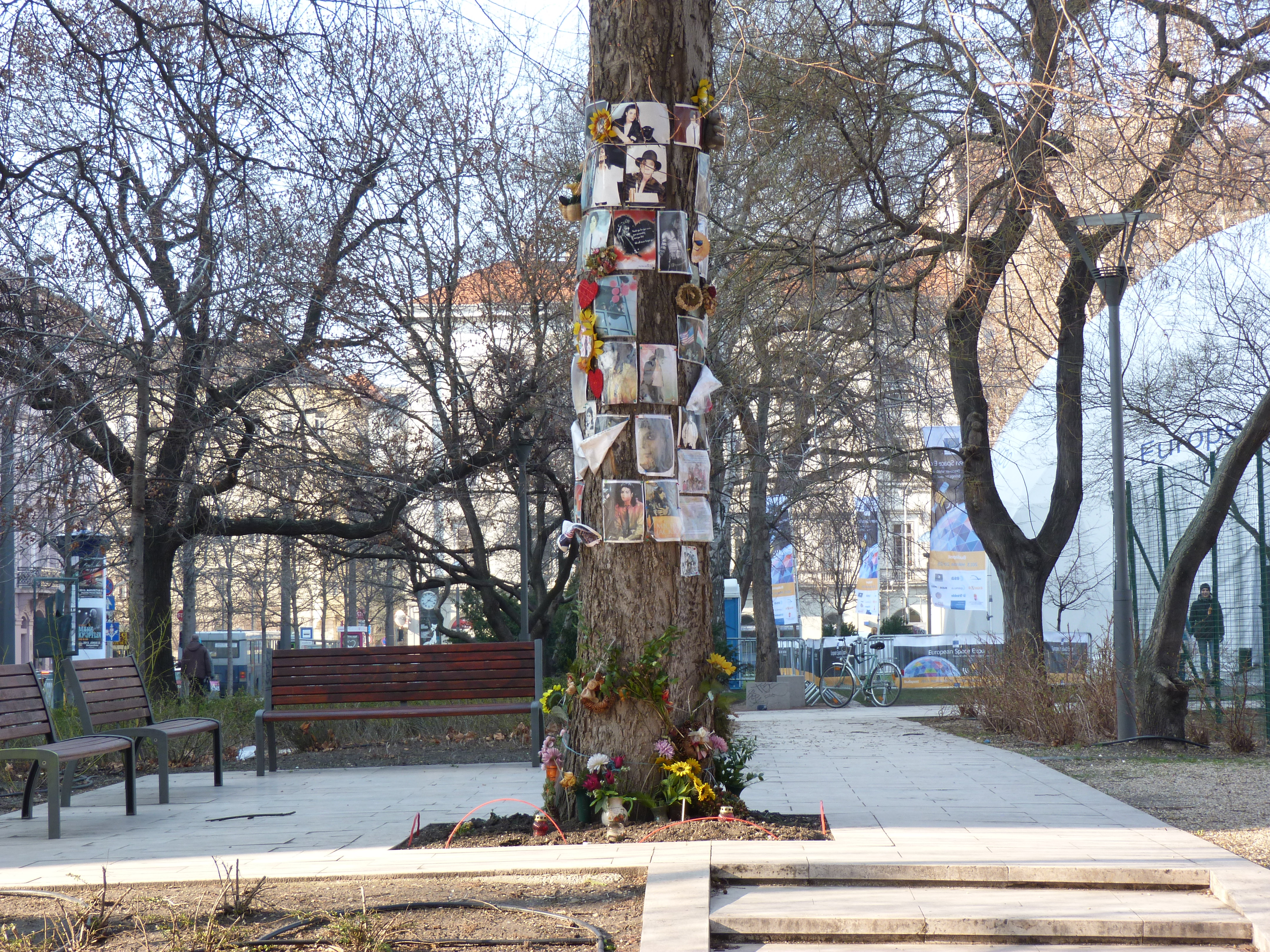 Live on the 22th of March, 2013. Erzsébet tér, Downtown Budapest. Michael Jackson memorial tree. Michael stayed in the Kempinski on the other side of the street, during his three visits to Budapest. While Jackson was staying at the hotel, fans gathered around this tree to get a glimpse of the man waving from his window in the Presidential Suite. The day of his death, fans established a memorial around this tree to honor his memory. The tree is still maintained to this day. The white paper on the tree states: “Michael was accomodated in hotel Kempinski Next to his [sic] tree in 1996 September. He had concert in stadion [sic] part of History World Tour. So Hungarian fans established his memorial place”. Every year on August 29th, fans gather to flashmob/re-enact a Michael Jackson dance scene. ©© Derzsi Elekes Andor, Budapest, 2013, You are authorised to use these photos and vids under Creative Commons – even for commercial, for profit purposes. Photos must be attributed to Derzsi Elekes Andor. All of the photos and vids in the Metapolisz DVD line are under Creative Commons and can be used even for commercial – for profit – purposes. Recommended Citation Derzsi Elekes Andor: Metapolisz DVD line Sources: A Million Trees for Michael Bizarre Budapest: the Michael Jackson Memorial Tree